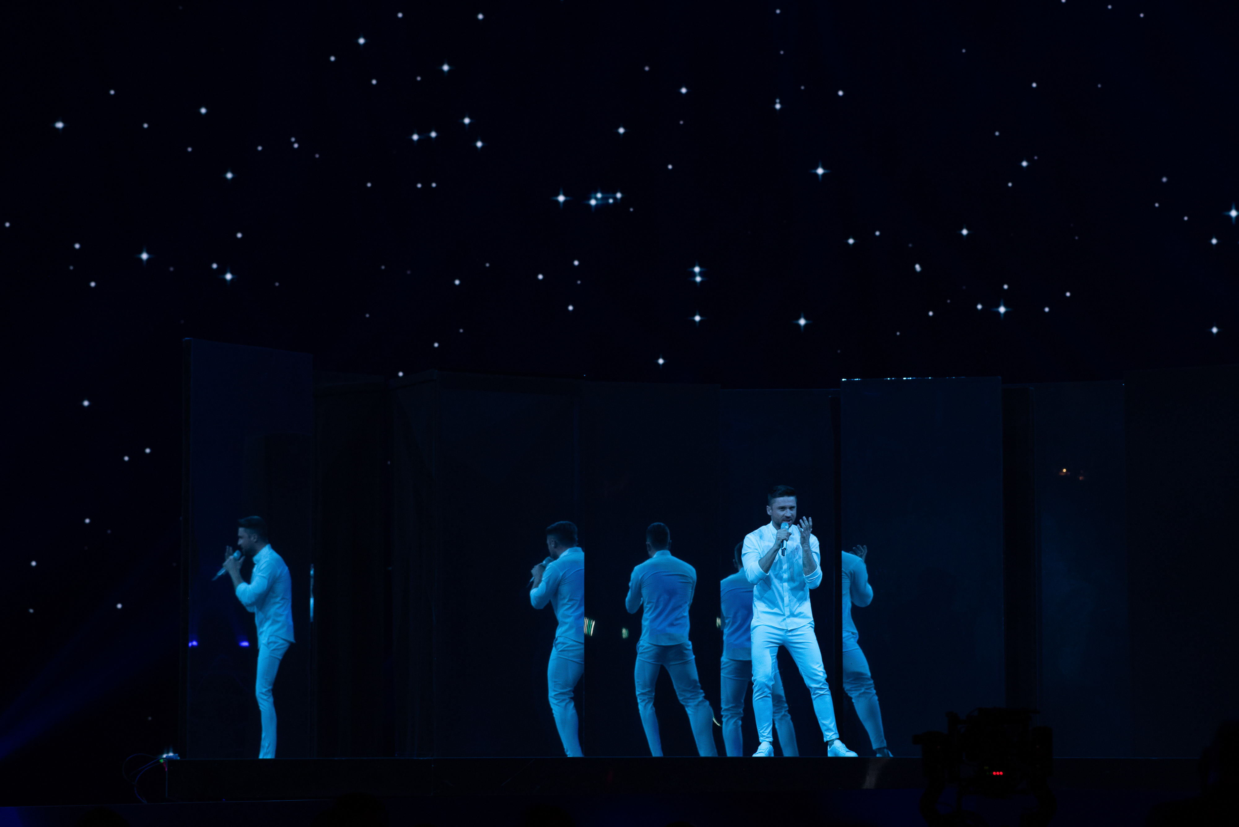 Sergey Lazarev representing Russia with the song "Scream" during a rehearsal before the grand final of the Eurovision Song Contest 2019 in Tel-Aviv.